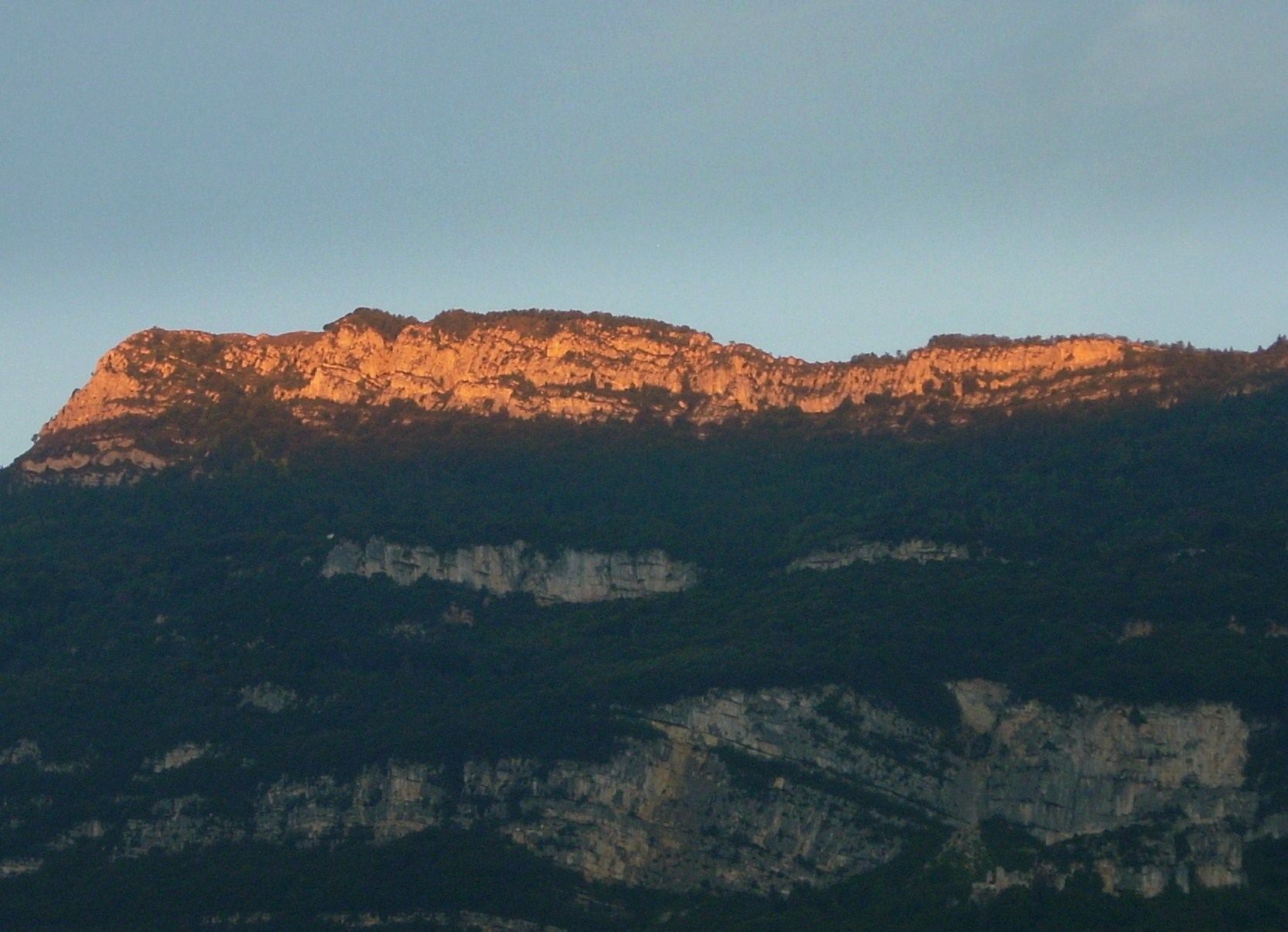 The Mount Biaena (Province of Trento, Italy) photographed from Rovereto at sunrise